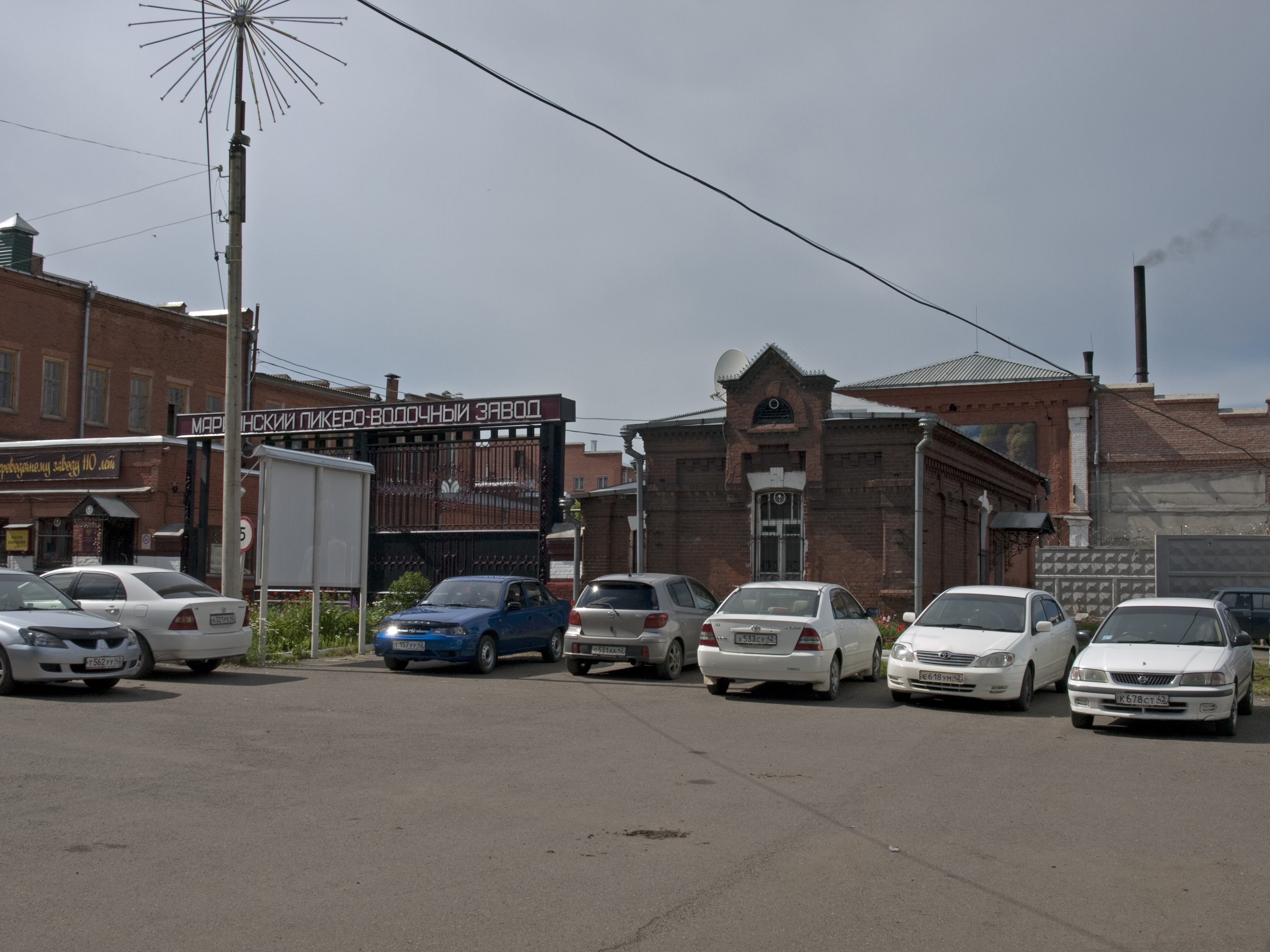 Gate of the Spirits Factory, Palchikova Street, Mariinsk